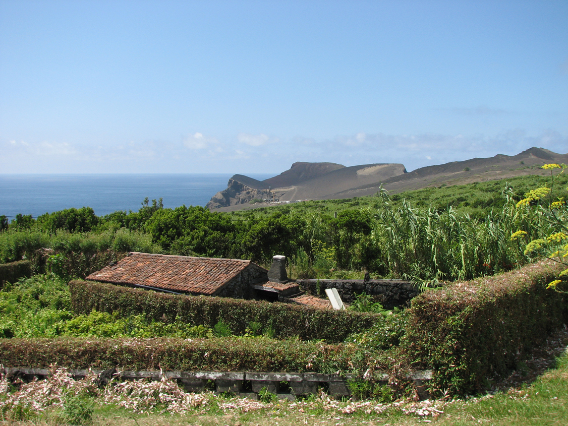 Landscape near Capelinhos, Faial Island, Azores, Portugal